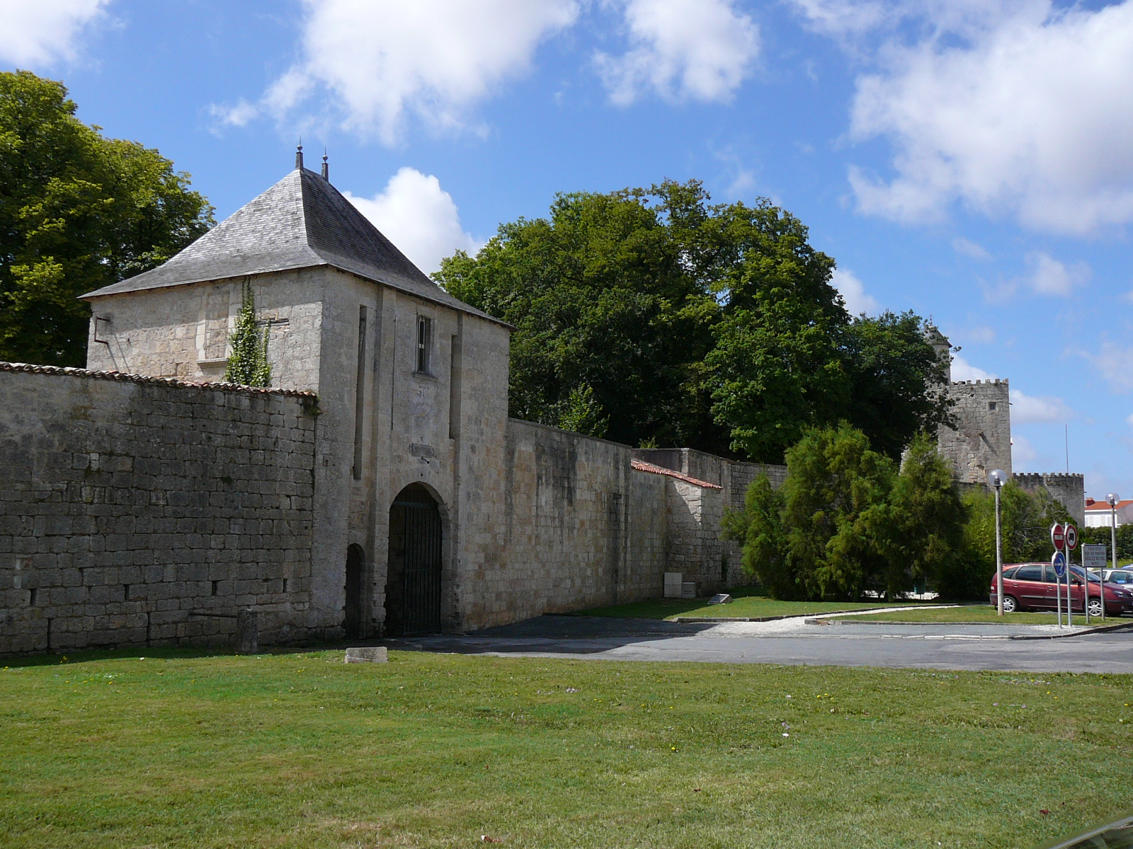 Castle in Surgères. Charente-Maritime (17), Poitou-Charentes, France, Europe.